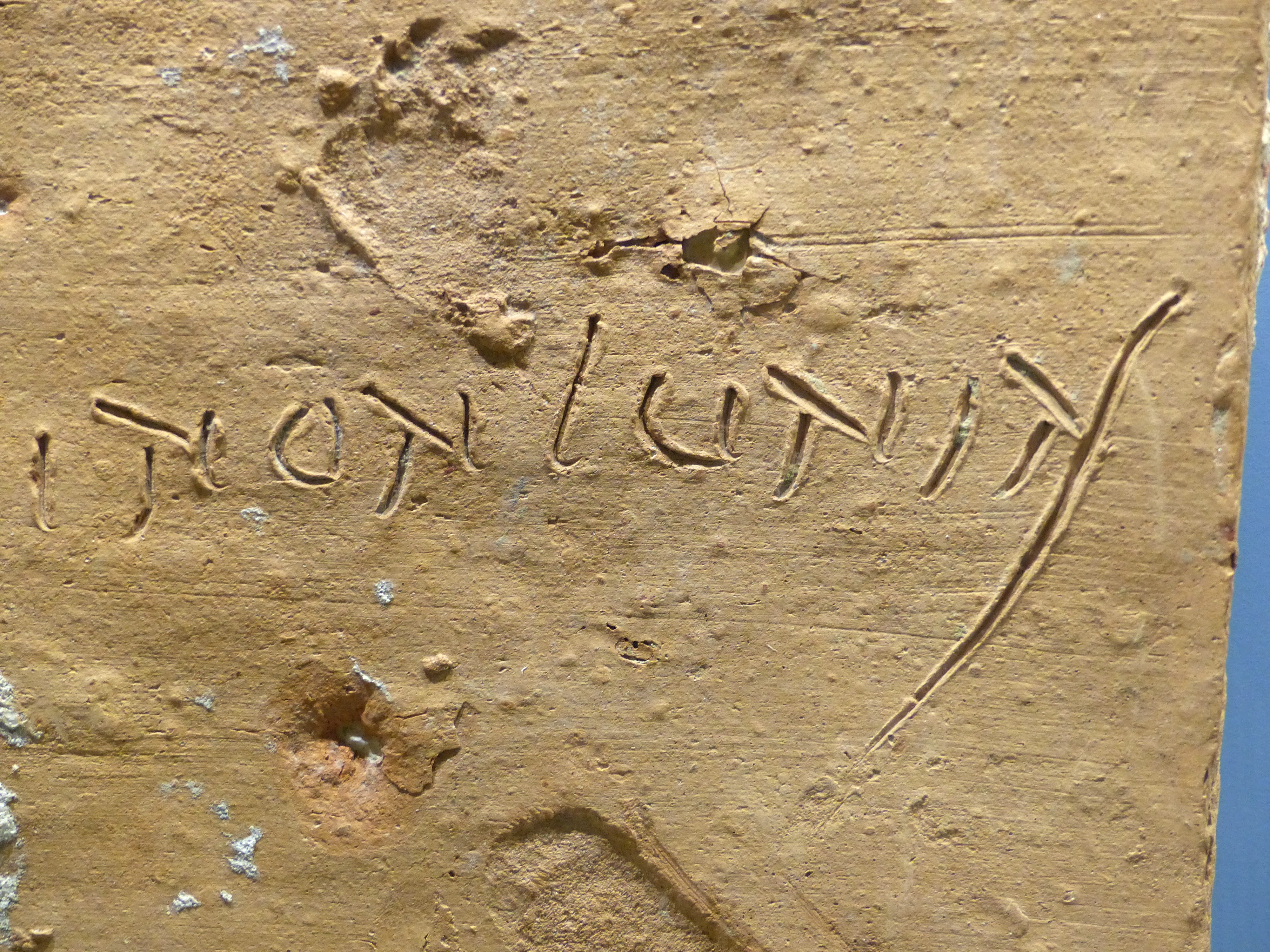 Enns ( Upper Austria ). Museum Lauriacum: Brick ( 3rd century AD ) from the ancient Roman civil settlement ( Enns ) with the date of production III NON(as) IVNIAS ( 3 June )